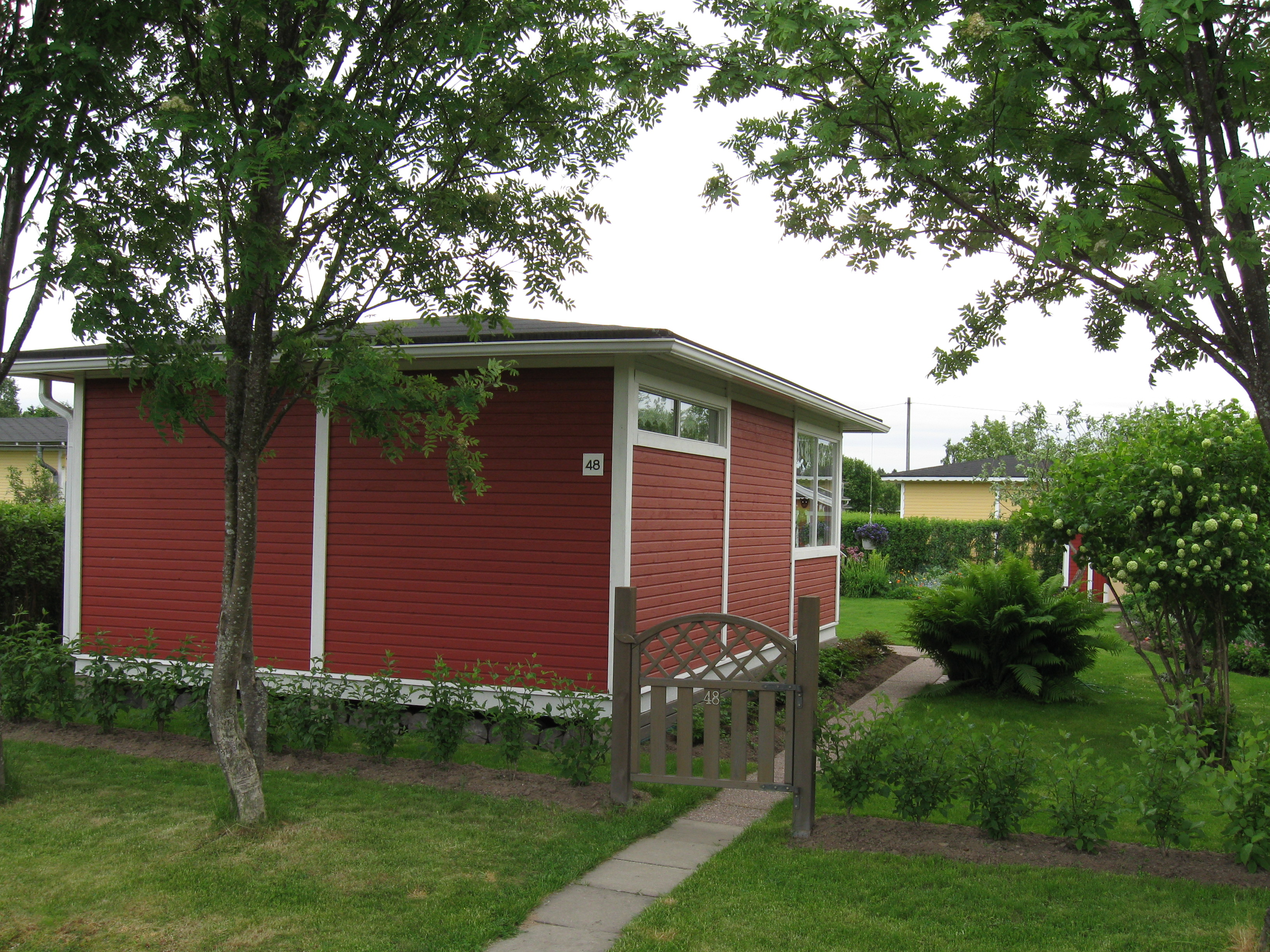 A house in the Markkuu garden allotment in Oulu, Finland.